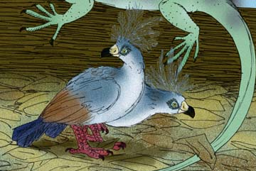 Comparison of the extinct Giant Fijian Iguana, Lapitiguana impensa, and two Viti Levu Giant Pigeons, Natunaornis gigoura, from prehistoric Fiji. The latter would have been as large as chickens. The former would have been as large as a green iguana, Iguana iguana.